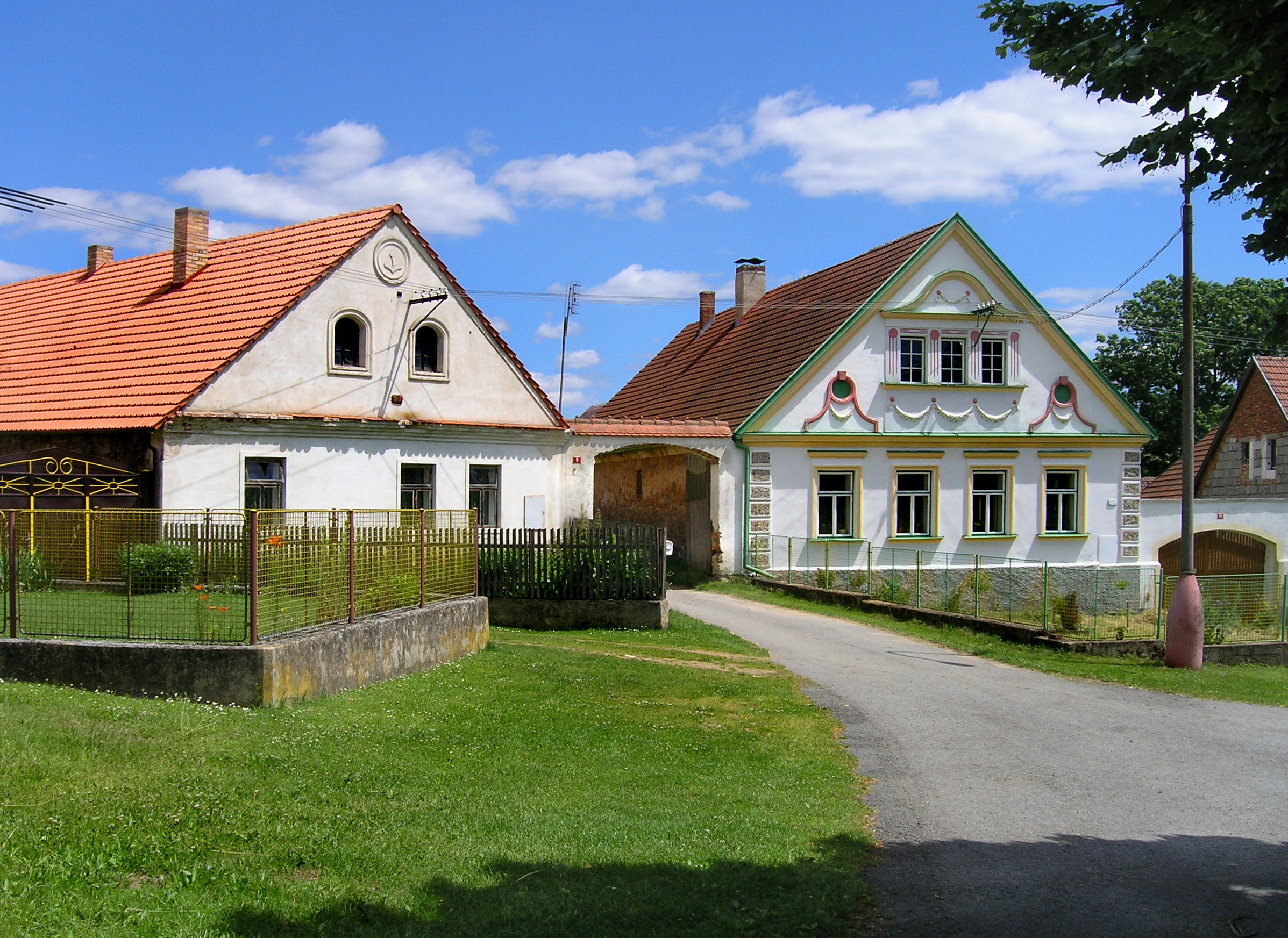 Common in Chýstovice village, Czech Republic